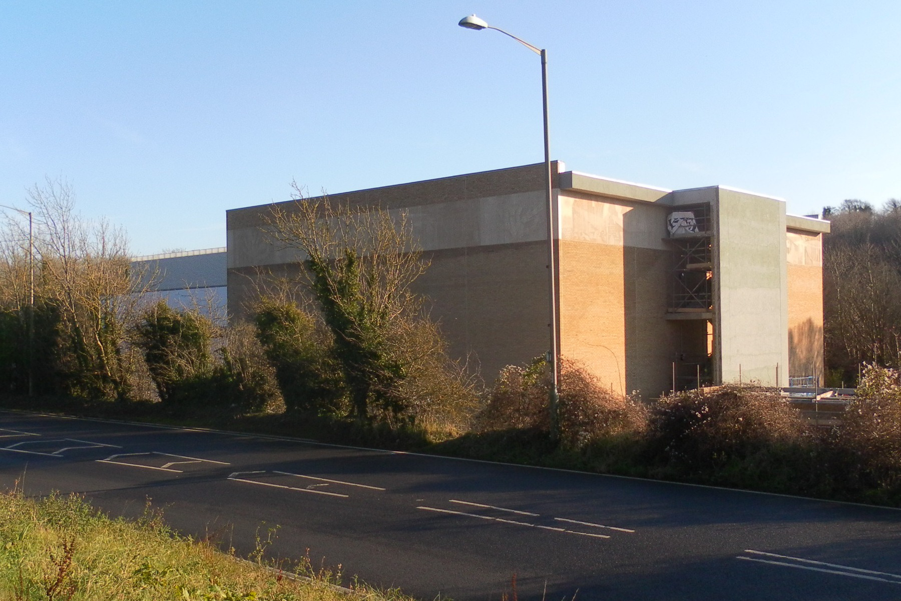 The Keep under construction in December 2012, viewed from the north on the A270 Lewes Road. The Keep is an archive and historical resource centre situated at Woollards Field, between Moulsecoomb and Falmer, on the edge of the City of Brighton and Hove, England. It will open in 2013 and will house East Sussex County Council's archives and records (going back over 900 years) and various other sets of historical documents and objects.